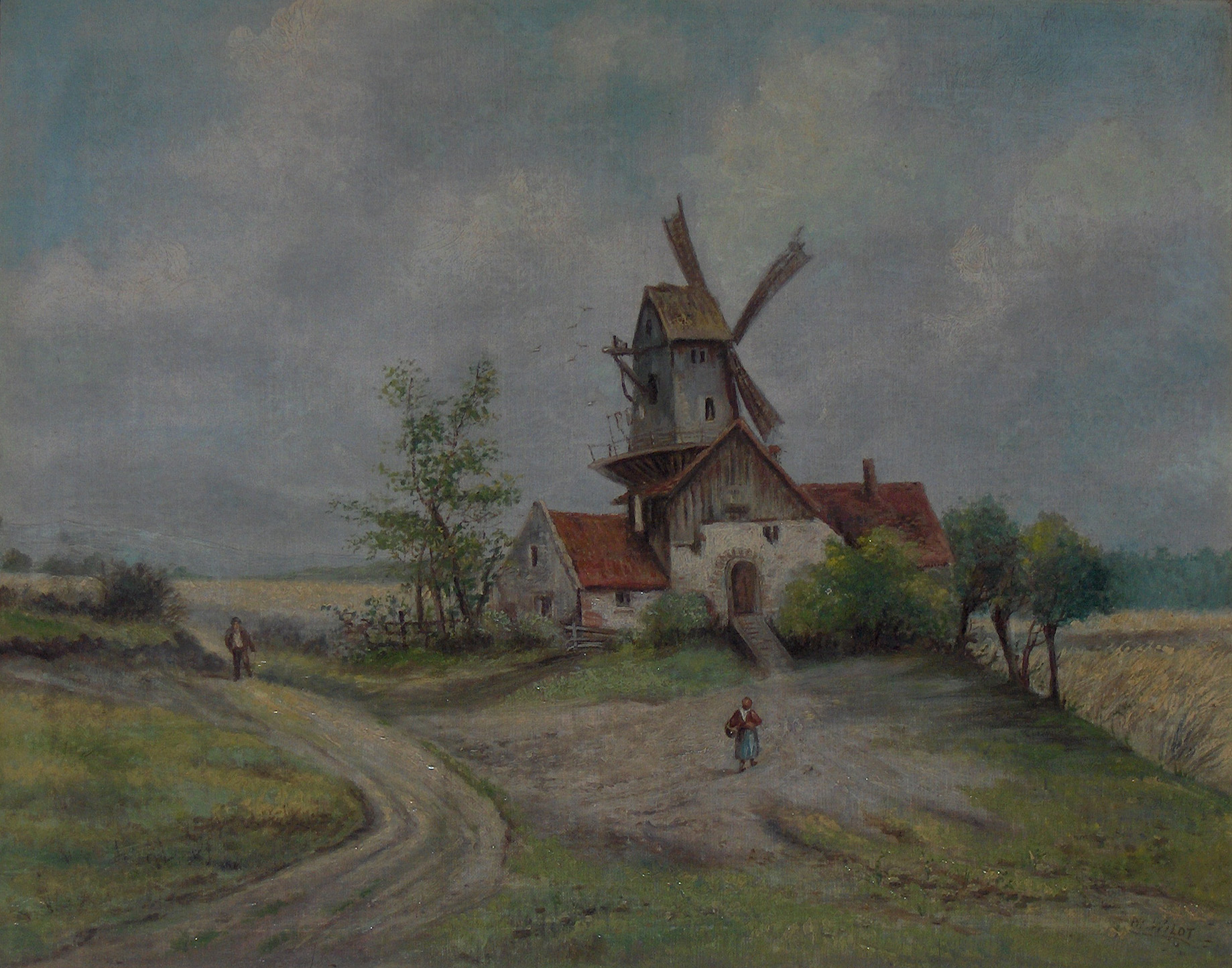 "Zomerlandschap met molen" olieverf op doek door Charles Wildt (1851-1912); privé bezit